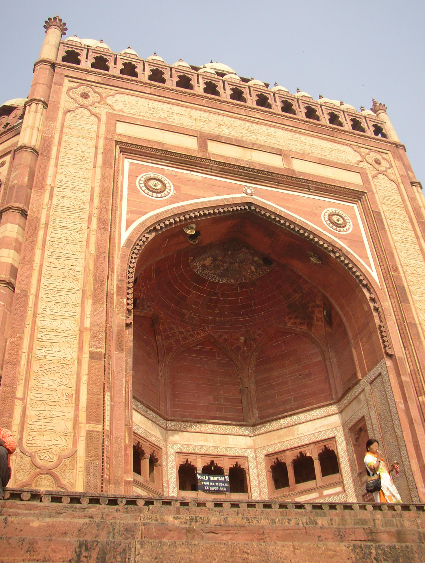 Buland Darwaza in Fatehpur Sikri in Uttar Pradesh, India